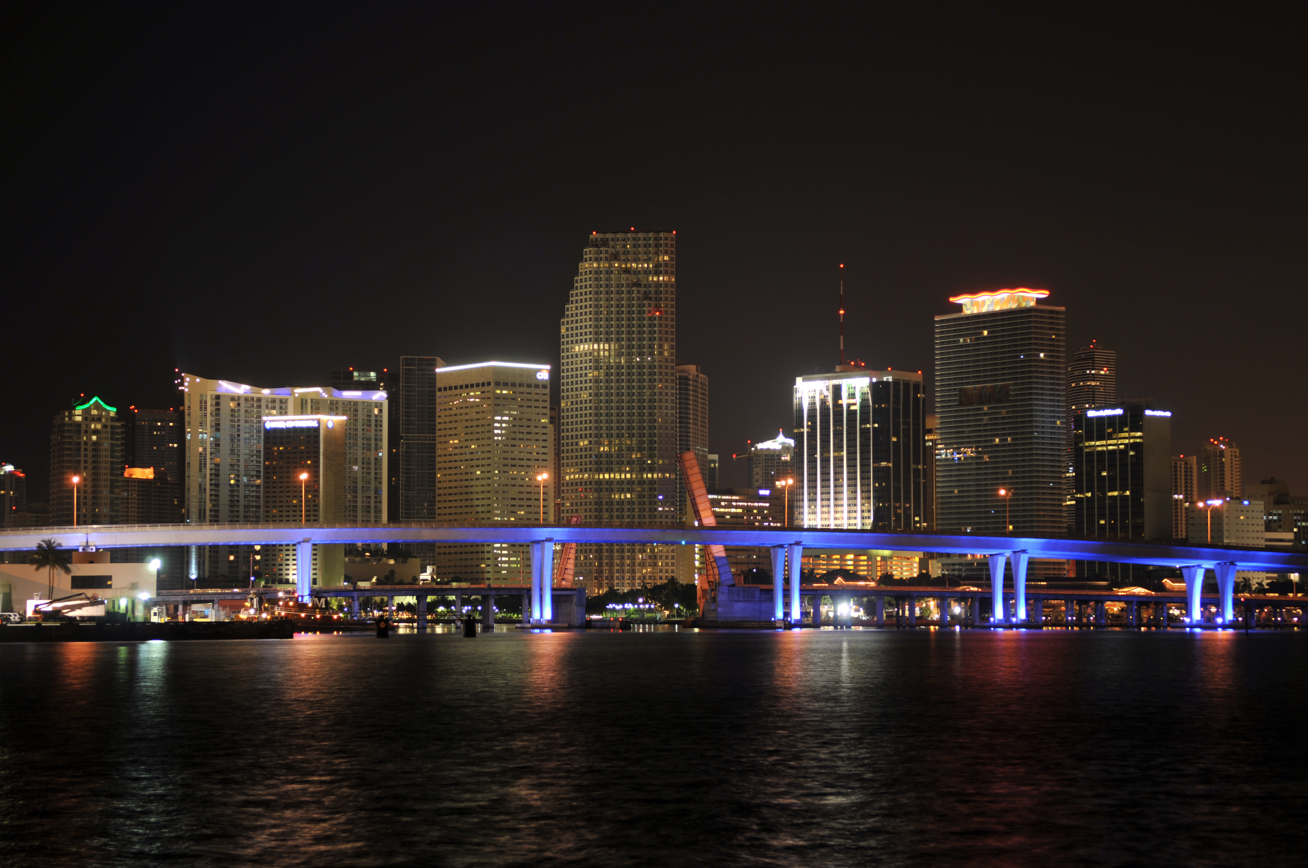 Miami at Night. Photo taken August 12, 2008